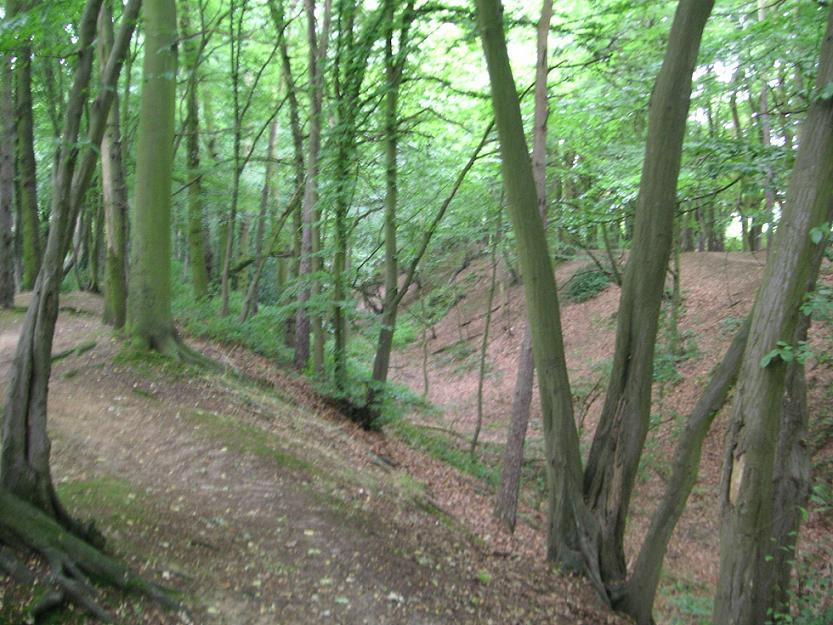 Photograph of Beech Bottom Dyke, Hertfordshire (by Colin Riegels, 9 July 2006)